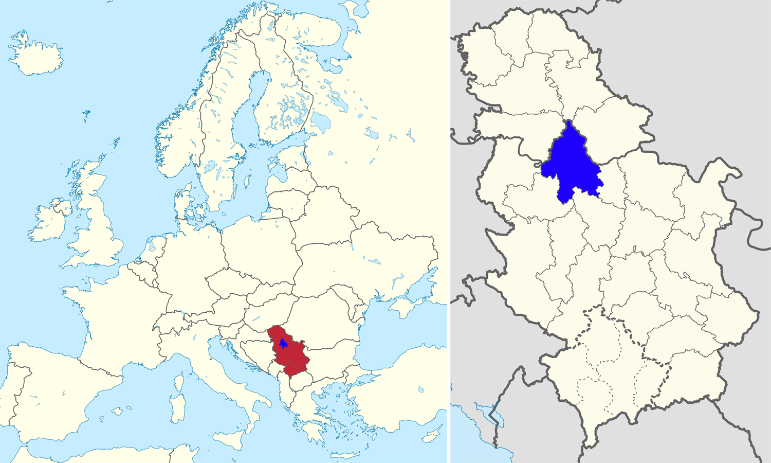 Belgrade in Serbia and Europe.